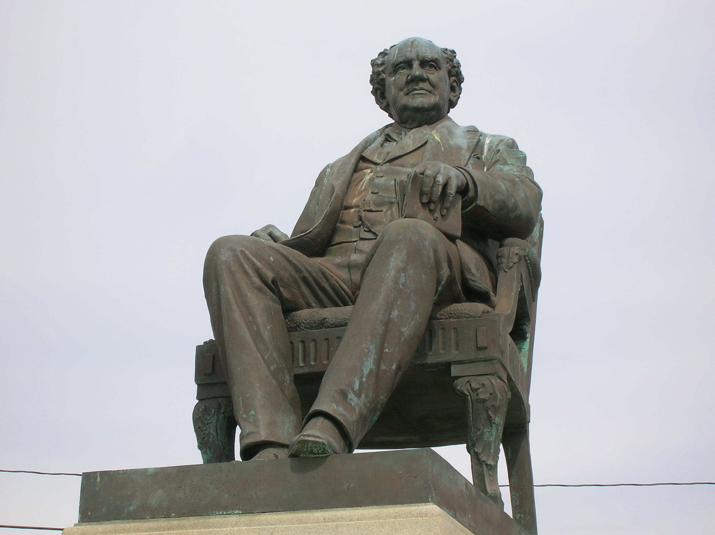 Photograph of P. T. Barnum monument (1887), sculpted by Thomas Ball, located in Seaside Park, Bridgeport, CT.